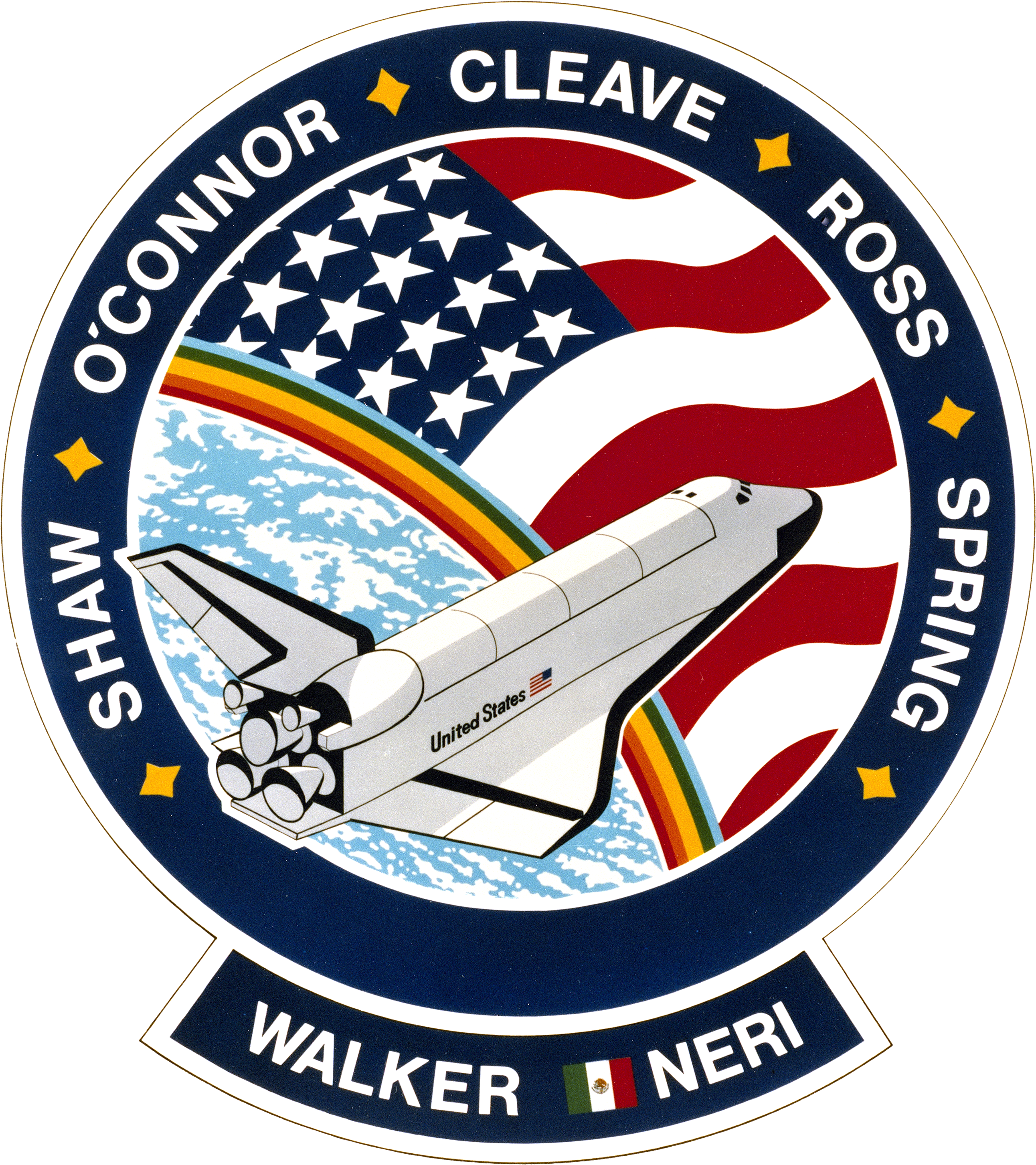 STS-61-B mission patch This is the insignia designed by the STS-61B crewmembers to represent their November 1985 mission aboard the Space Shuttle Atlantis, depicted here in earth orbit, making only its second space flight. The design is surrounded by the surnames of the seven crewmembers.